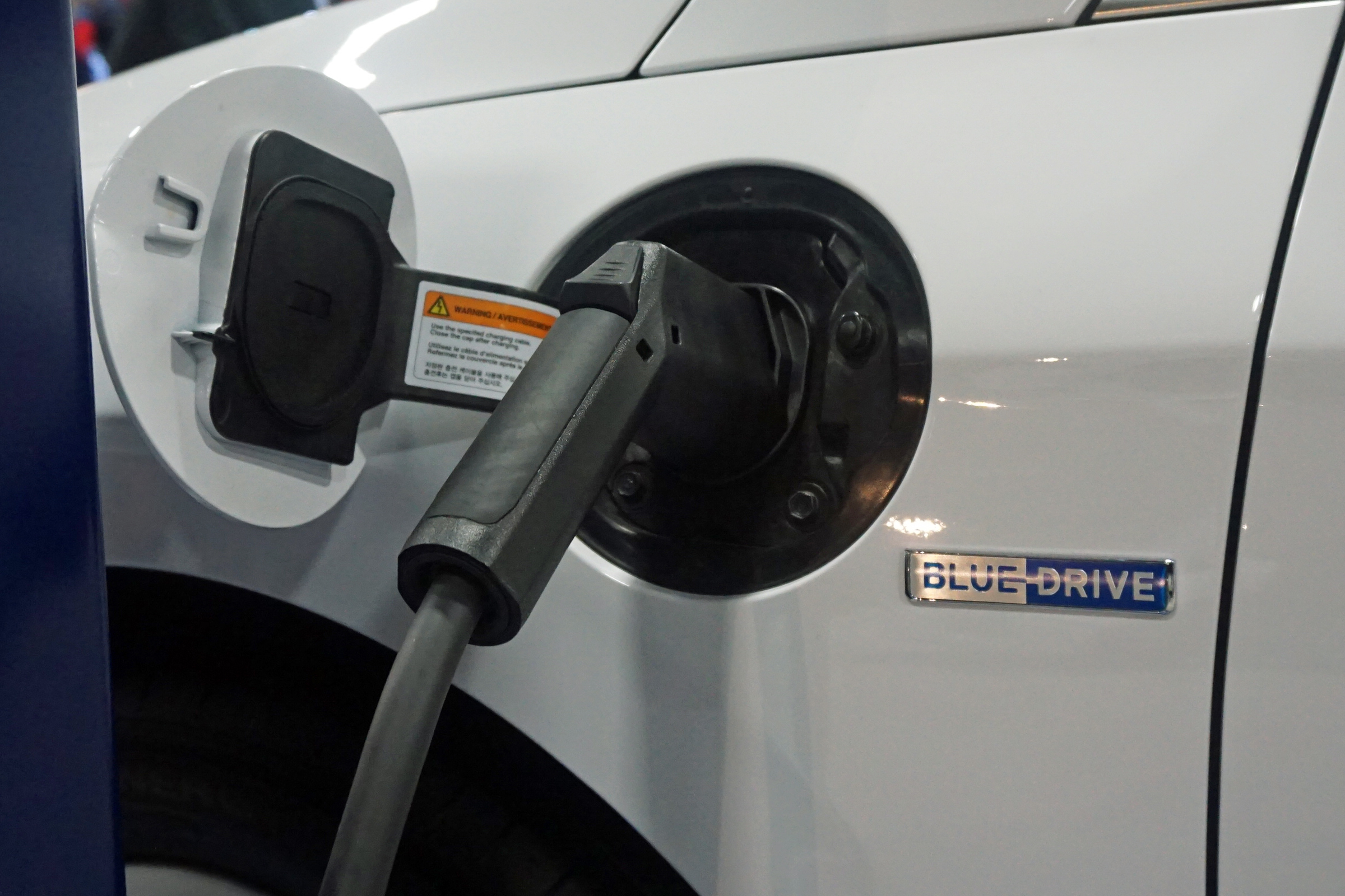 Charging port of the Hyundai Ioniq Plug-in (plug-in hybrid) exhibited at the 2017 Washington Auto Show, DC, USA.